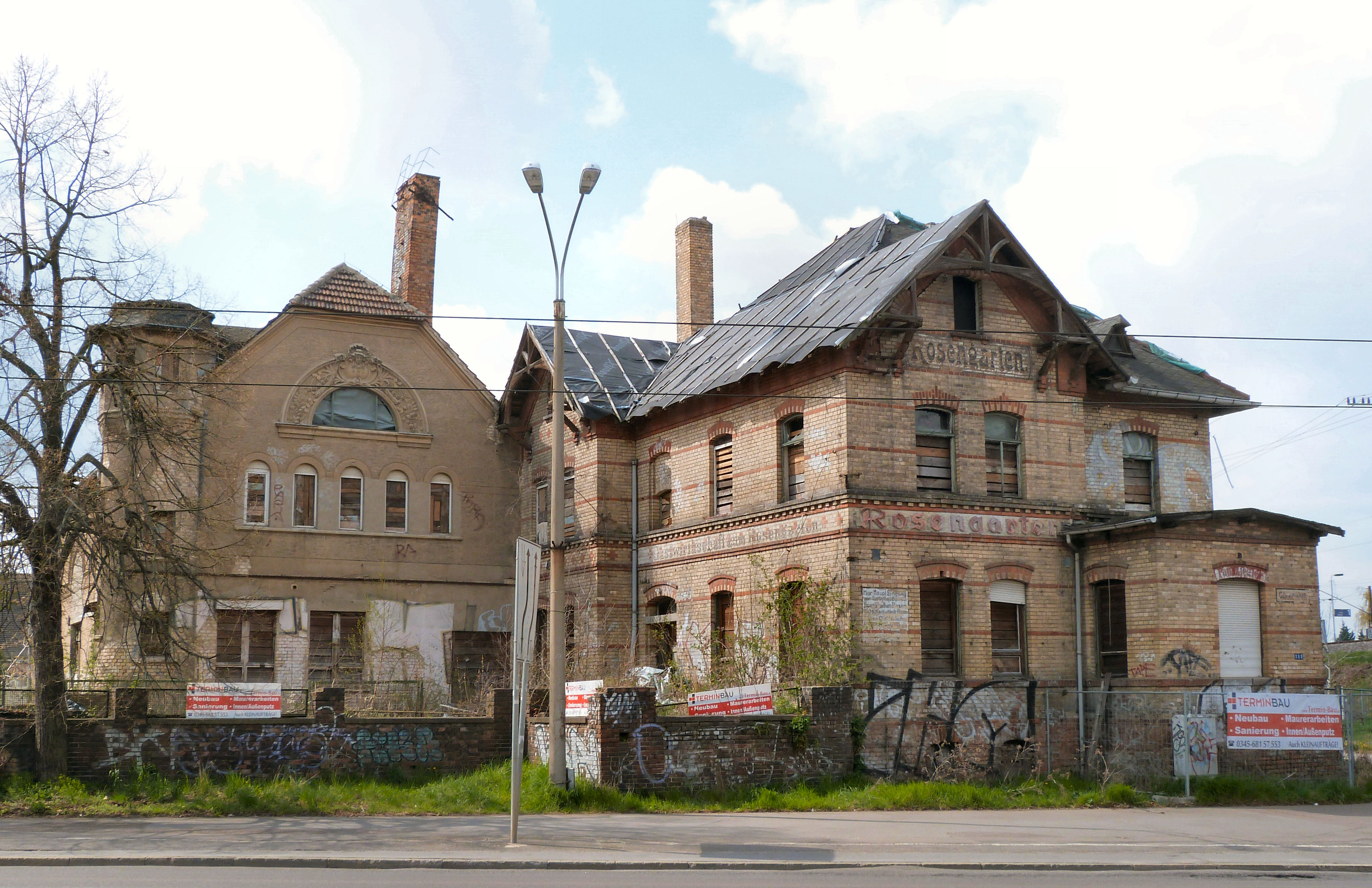 Former inn Gastwirtschaft zum Rosengarten, Merseburger Strasse, Halle (Saale)